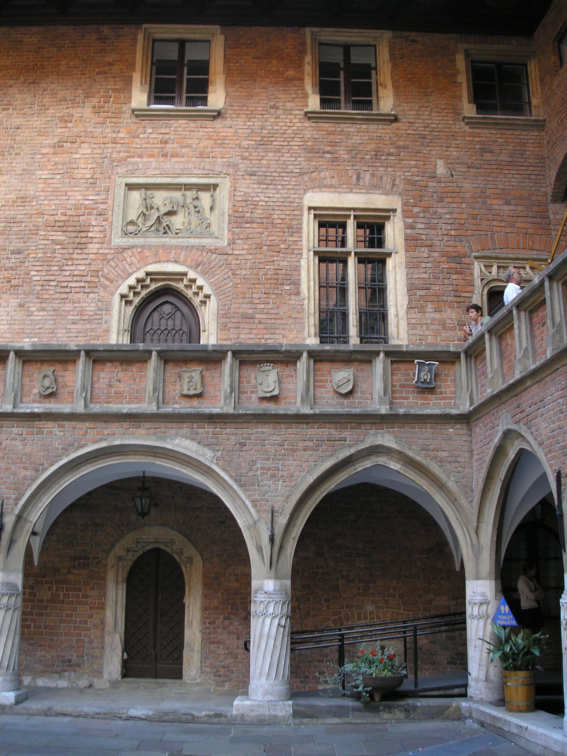 Sas coat of arms in the Collegium Maius in the Jagiellonian University in Krakow.